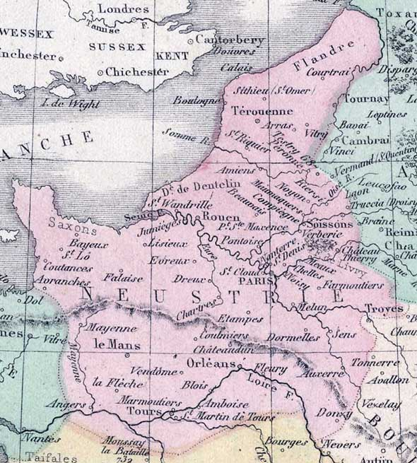 Neustria in 752